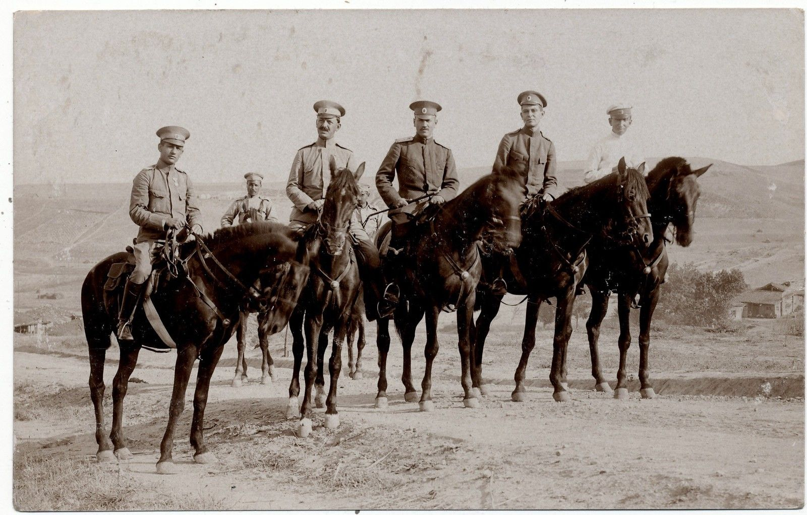 Bulgarian Officers in Levunovo 1916